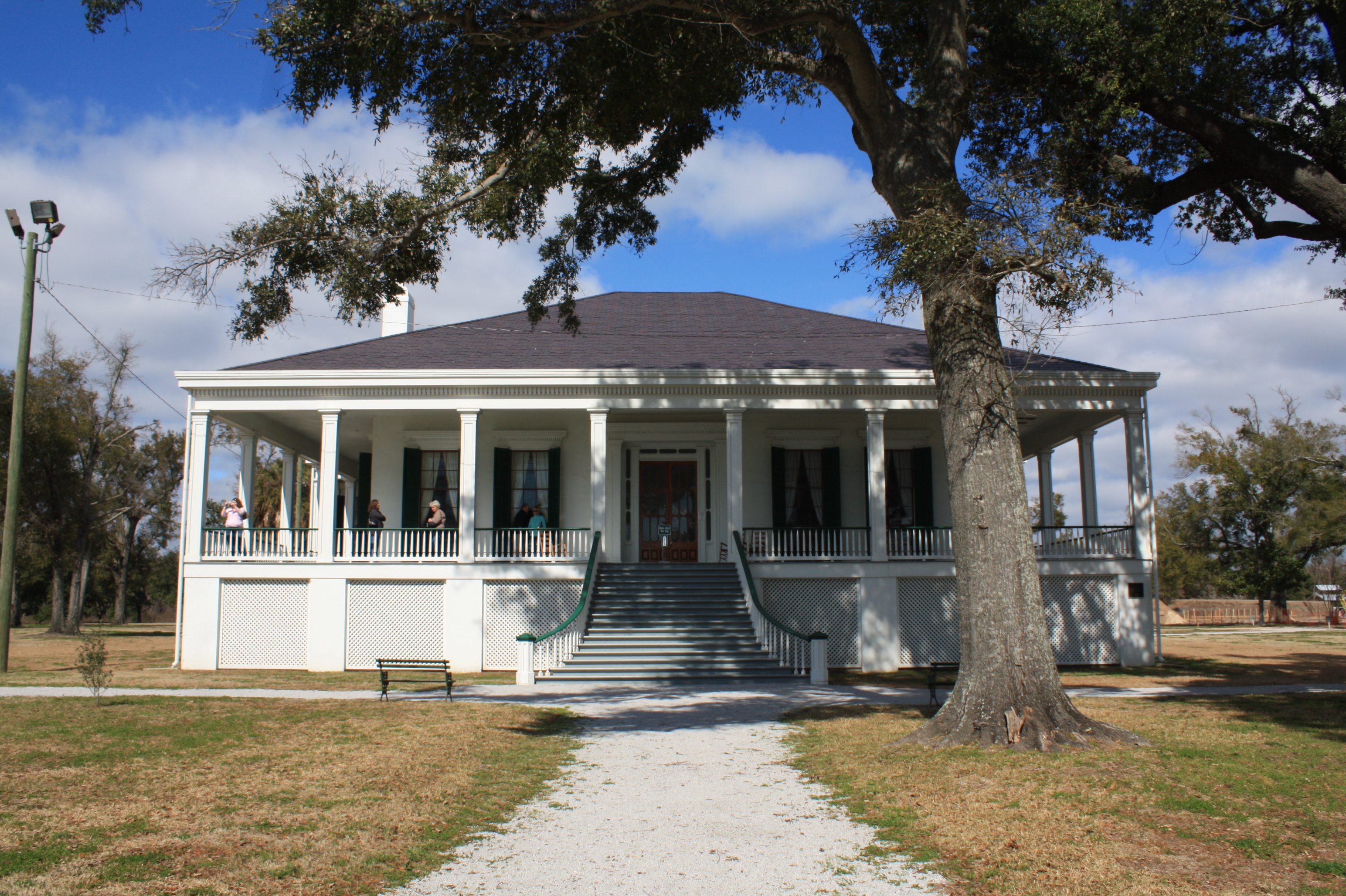 Beauvoir in Biloxi, Mississippi. Post-restoration, following massive damage from Hurricane Katrina.